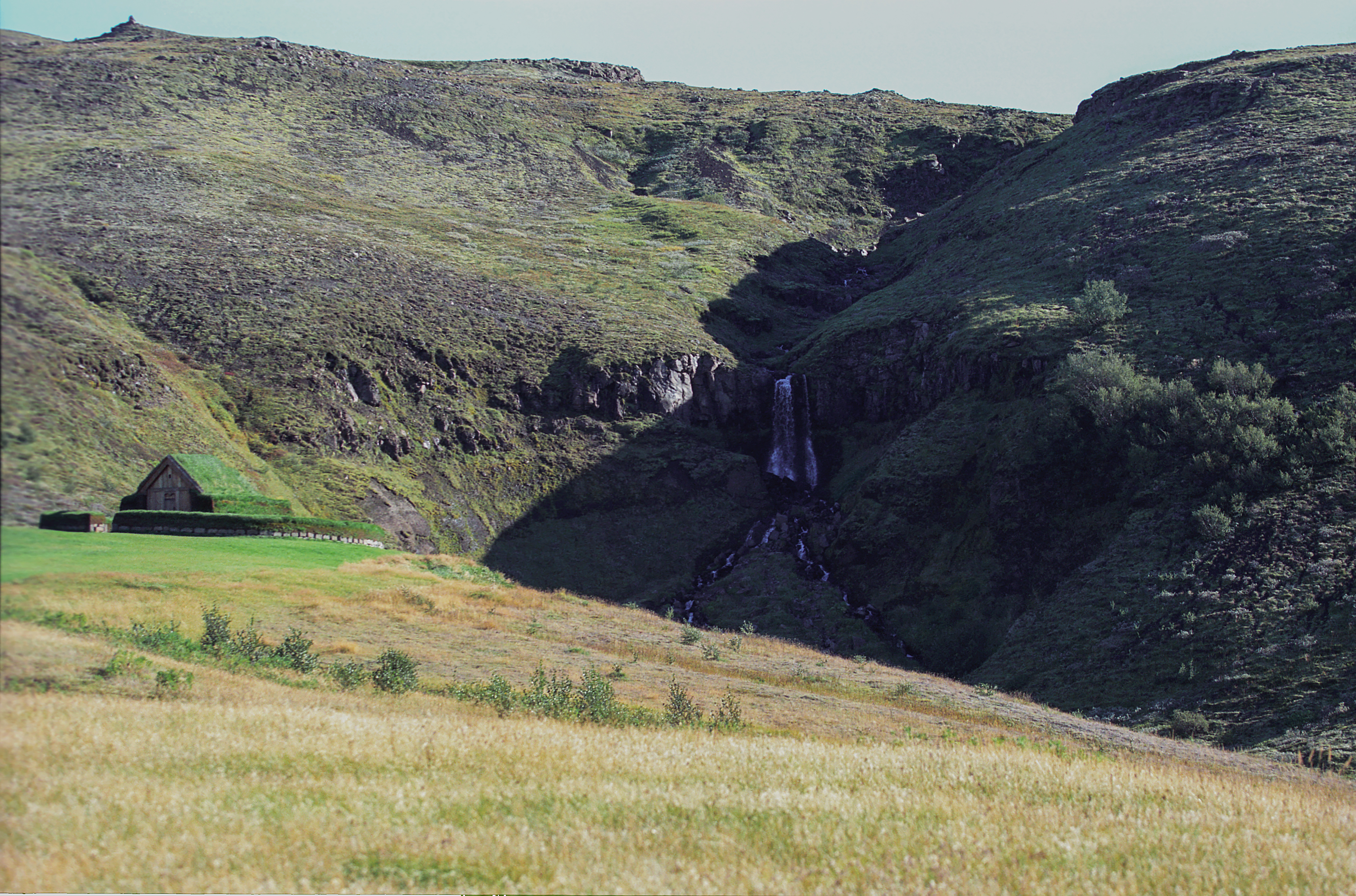 The Þjóðveldisbærinn Stöng farm, Iceland